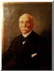 Portrait of Miguel Laurencena, Governor of Entre Rios.